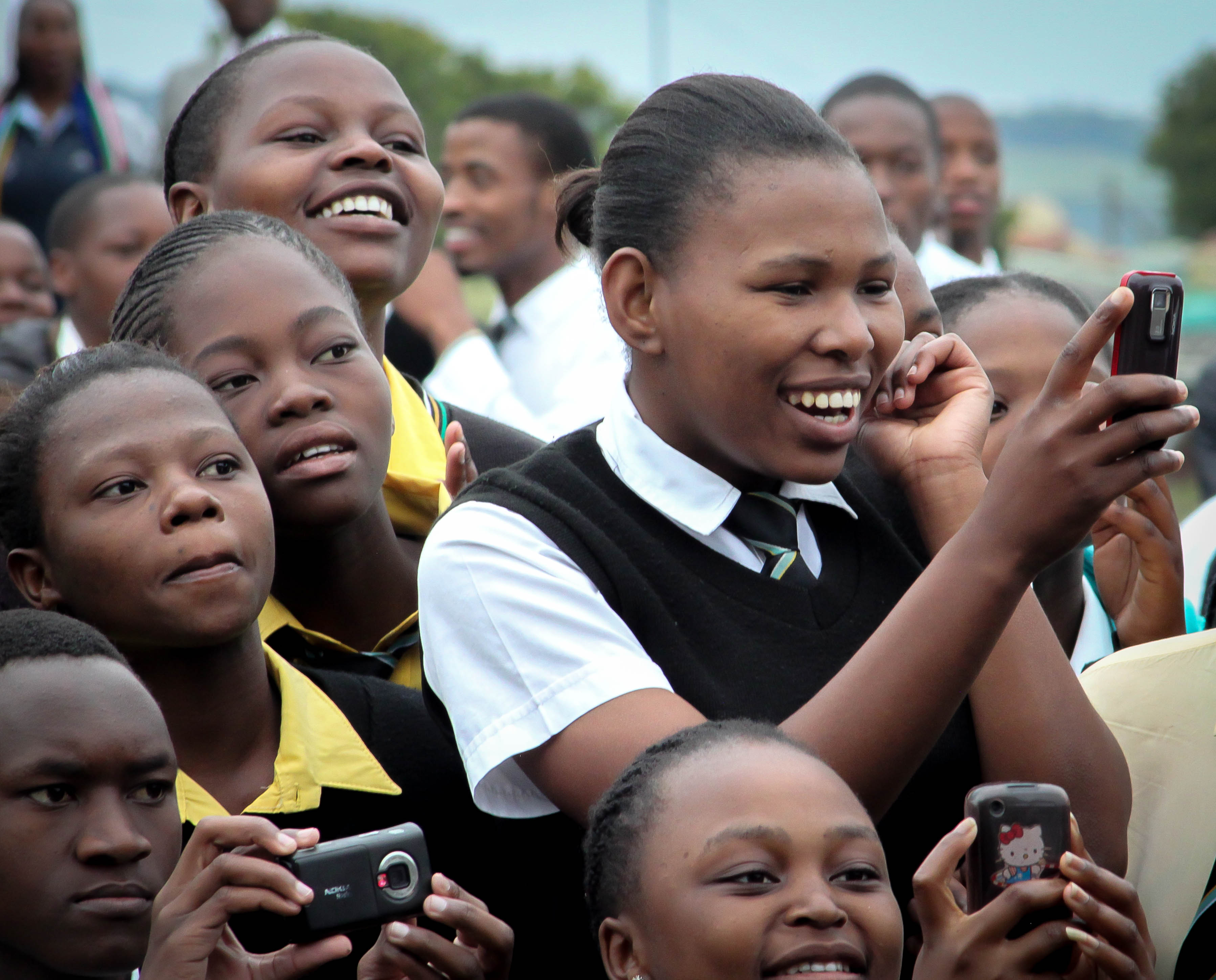 in School